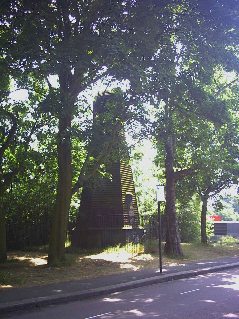 The Windmill, Windmill Road, Wandsworth. A windpump.